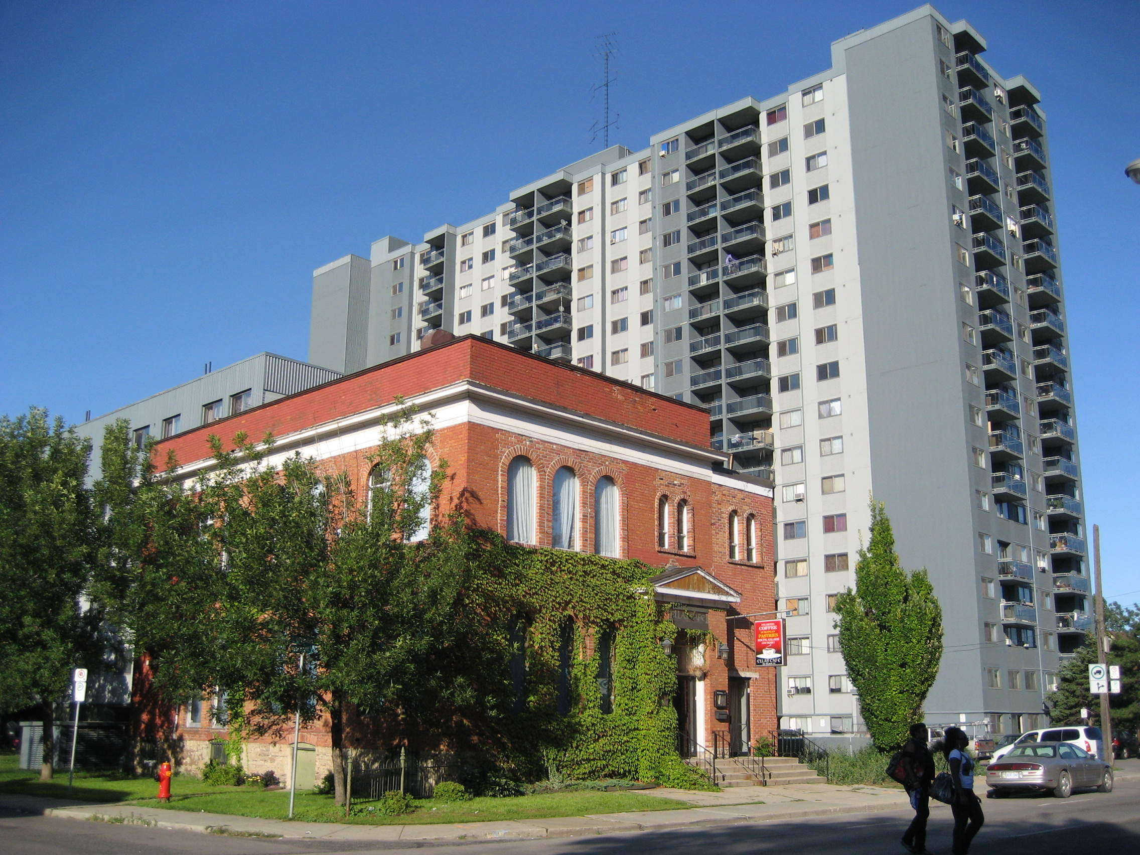 Wellington Place Apartments, view from Wilson Street, Hamilton, Canada.